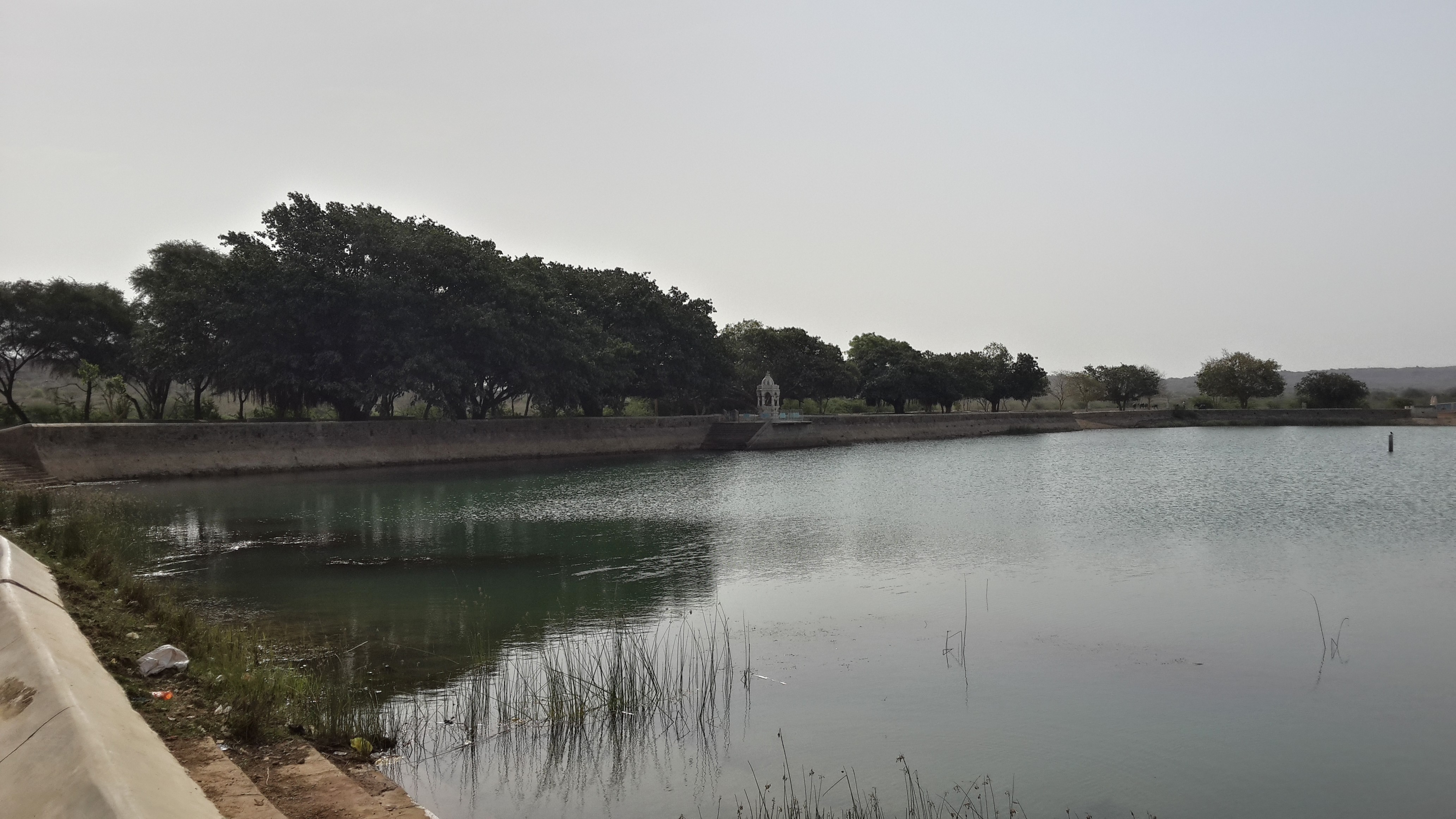 Samatra Lake